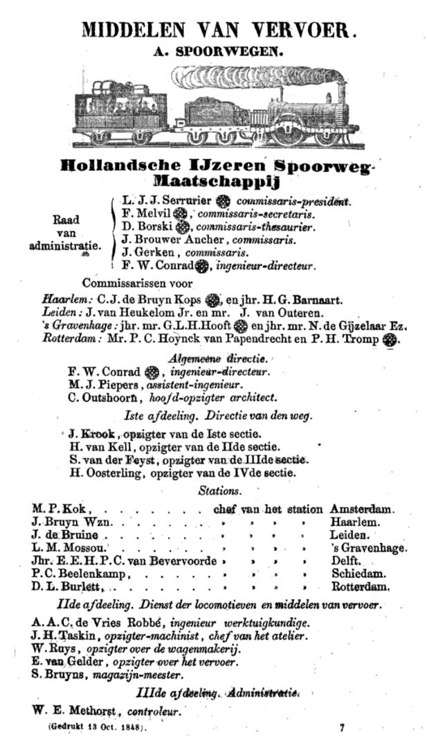 Hollandsche IJzeren Spoorweg-Maatschappij, Organisatie in 1848